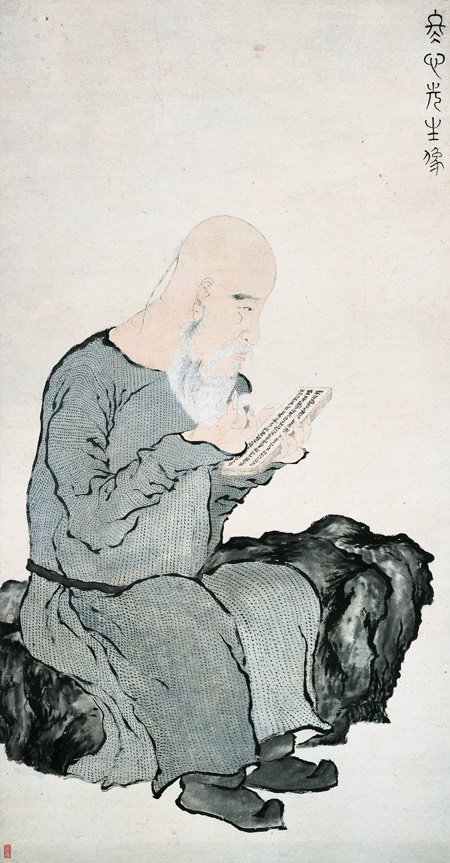 Scroll portrait of Jin Nong, Bhuddist monk, poet, calligrapher and artist (called here Mr. Dongxin, or "wintry heart", a sobriquet of Jin), and mentor of the artist Luo Ping, who created this work. Web page states: "ink and color on paper; 44 3/4 x 23 3/8 in. (113.7 x 59.3 cm) Zhejiang Provincial Museum". A related Web page [1] states "Above the portrait is a tribute to Jin Nong written by his old friend Yuan Mei (1716–1797), added in 1798." The image was "created as an icon", and Jin is presented in the same pose as a famous 10th-century image of a louhan, according to that Web page.